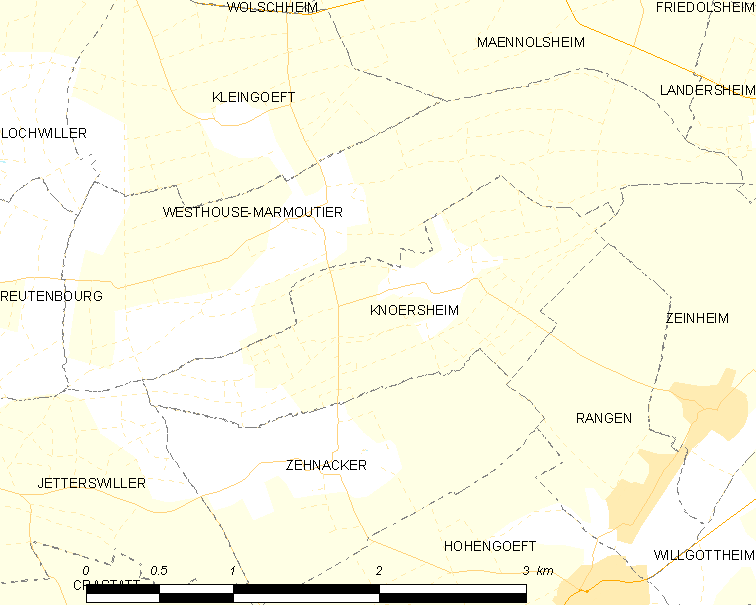 Map of French municipality